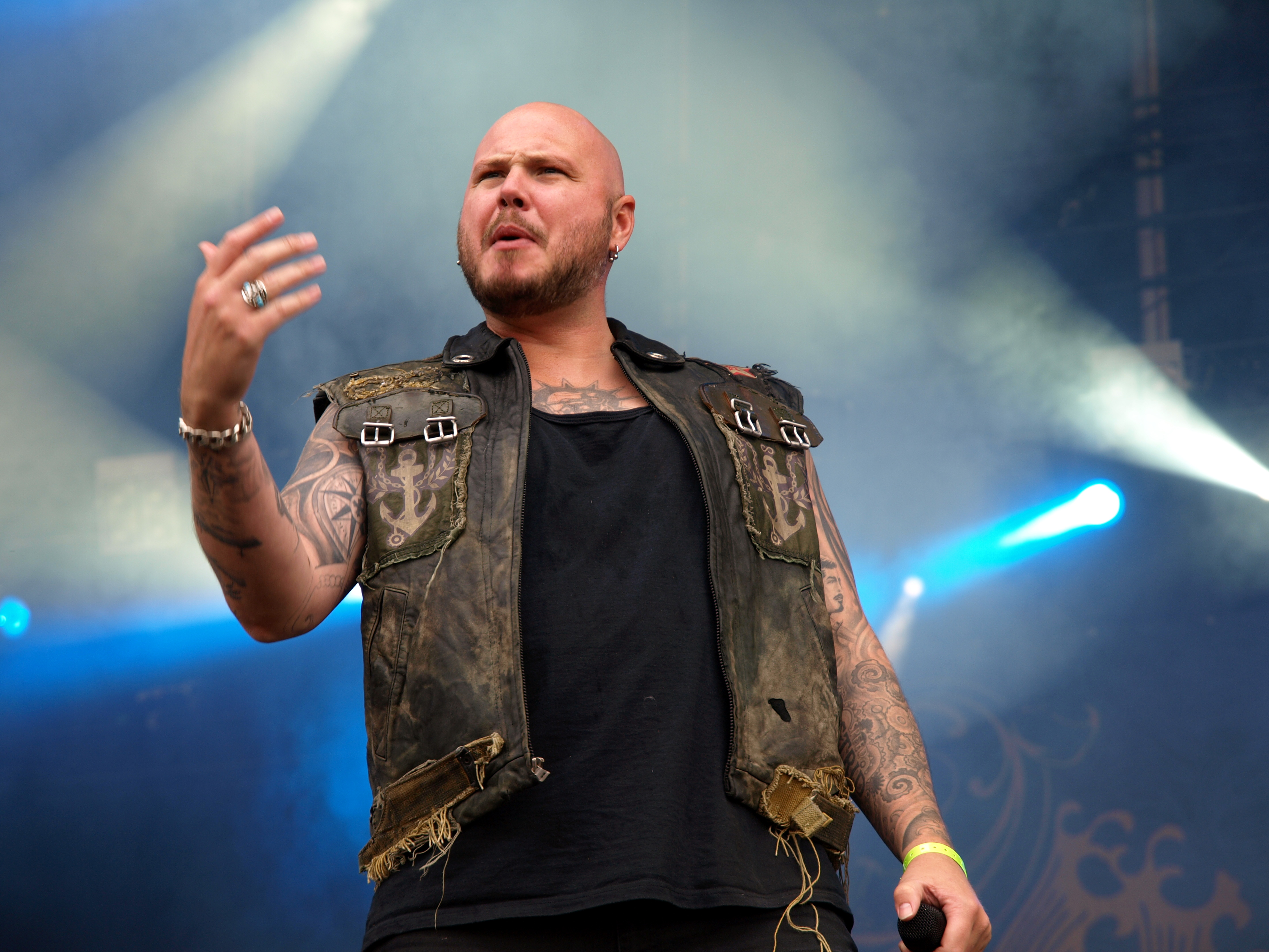 Swedish metal band Soilwork live at Tuska Open Air 2013